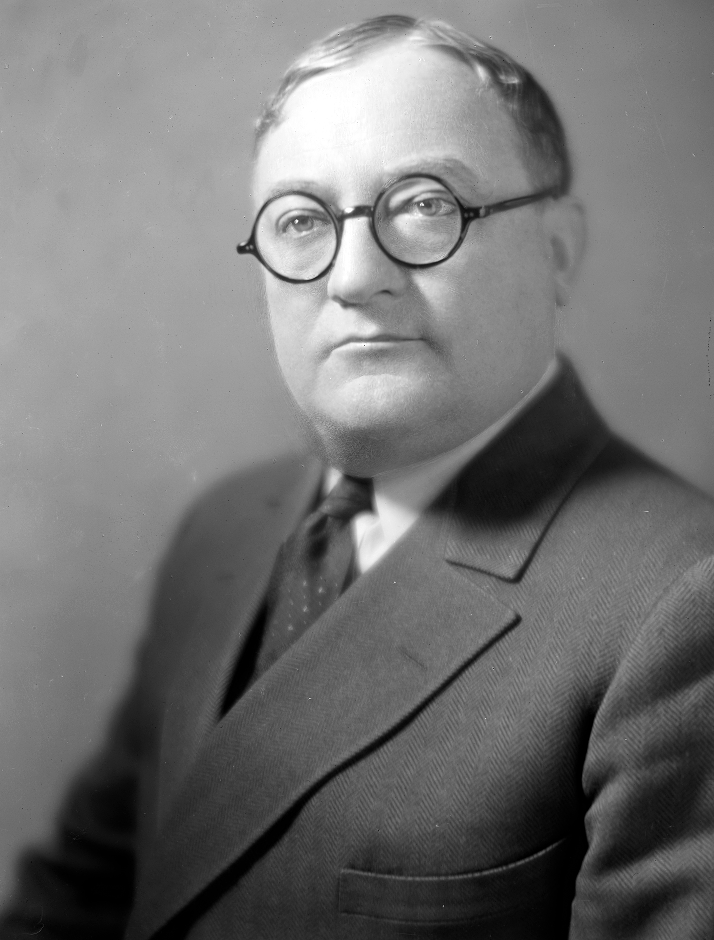 Henry D. Moorman, US Representative from Kentucky